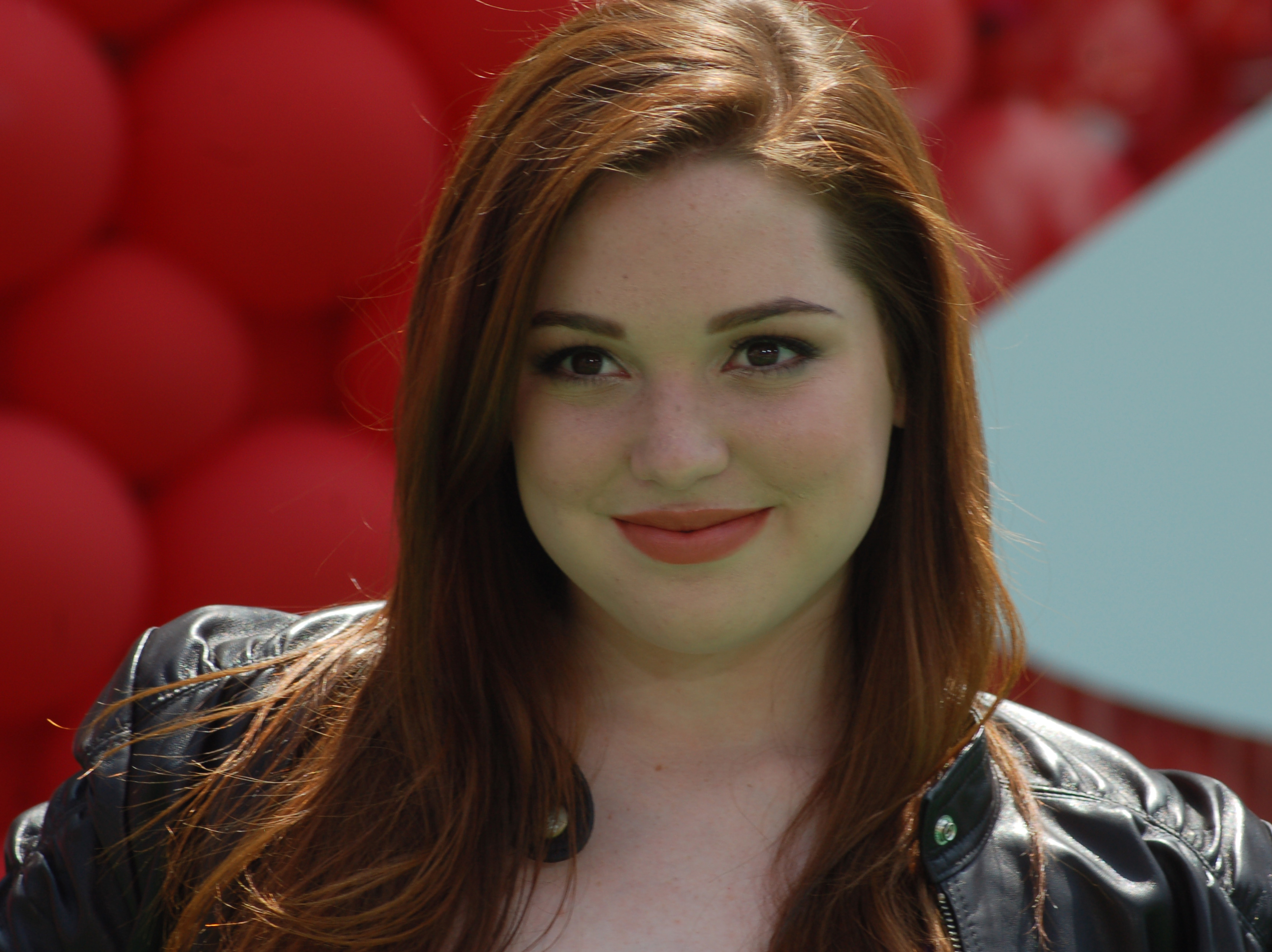 Jennifer Stone at the premiere for Up